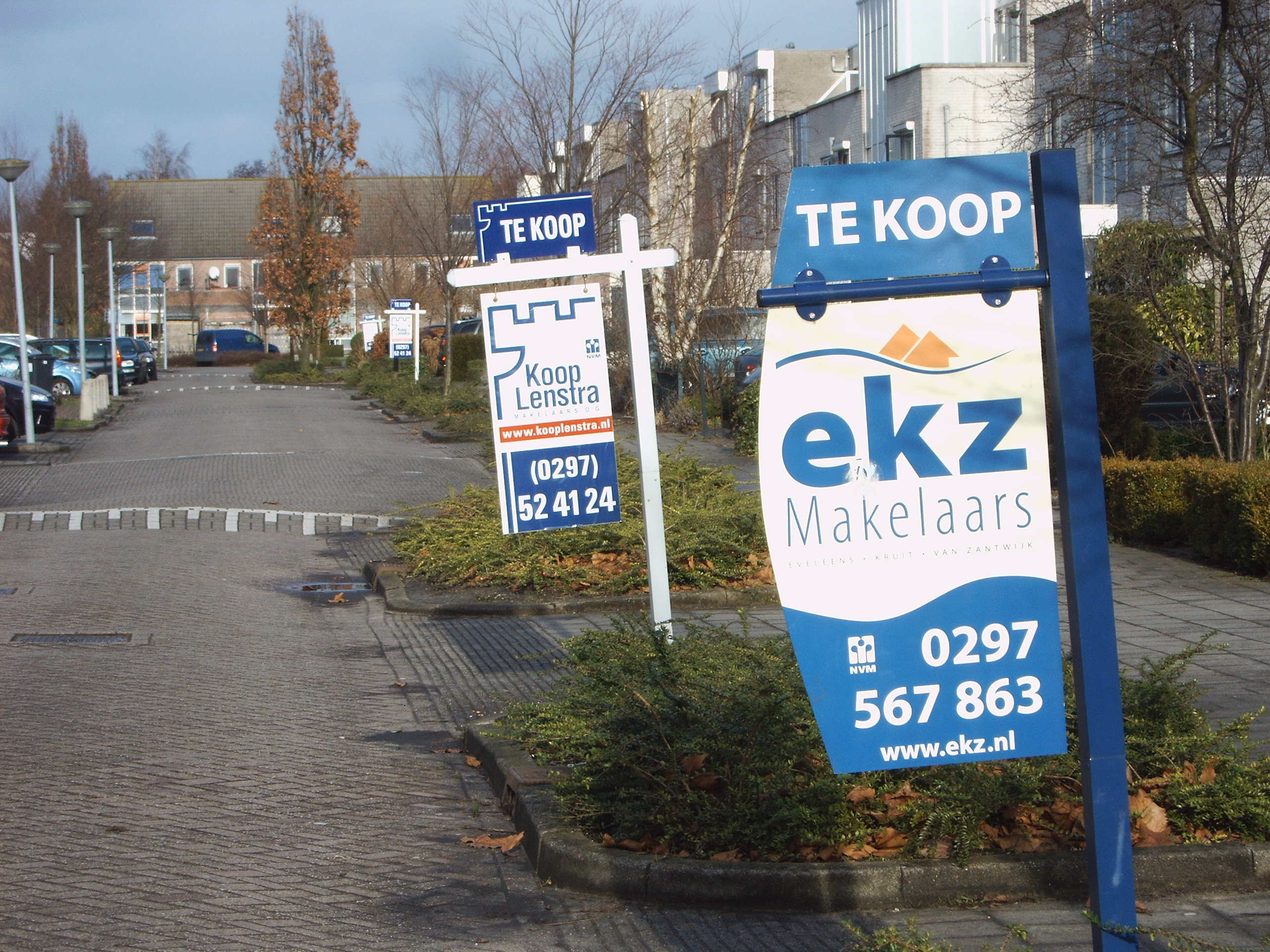 Houses for sale in the Netherlands